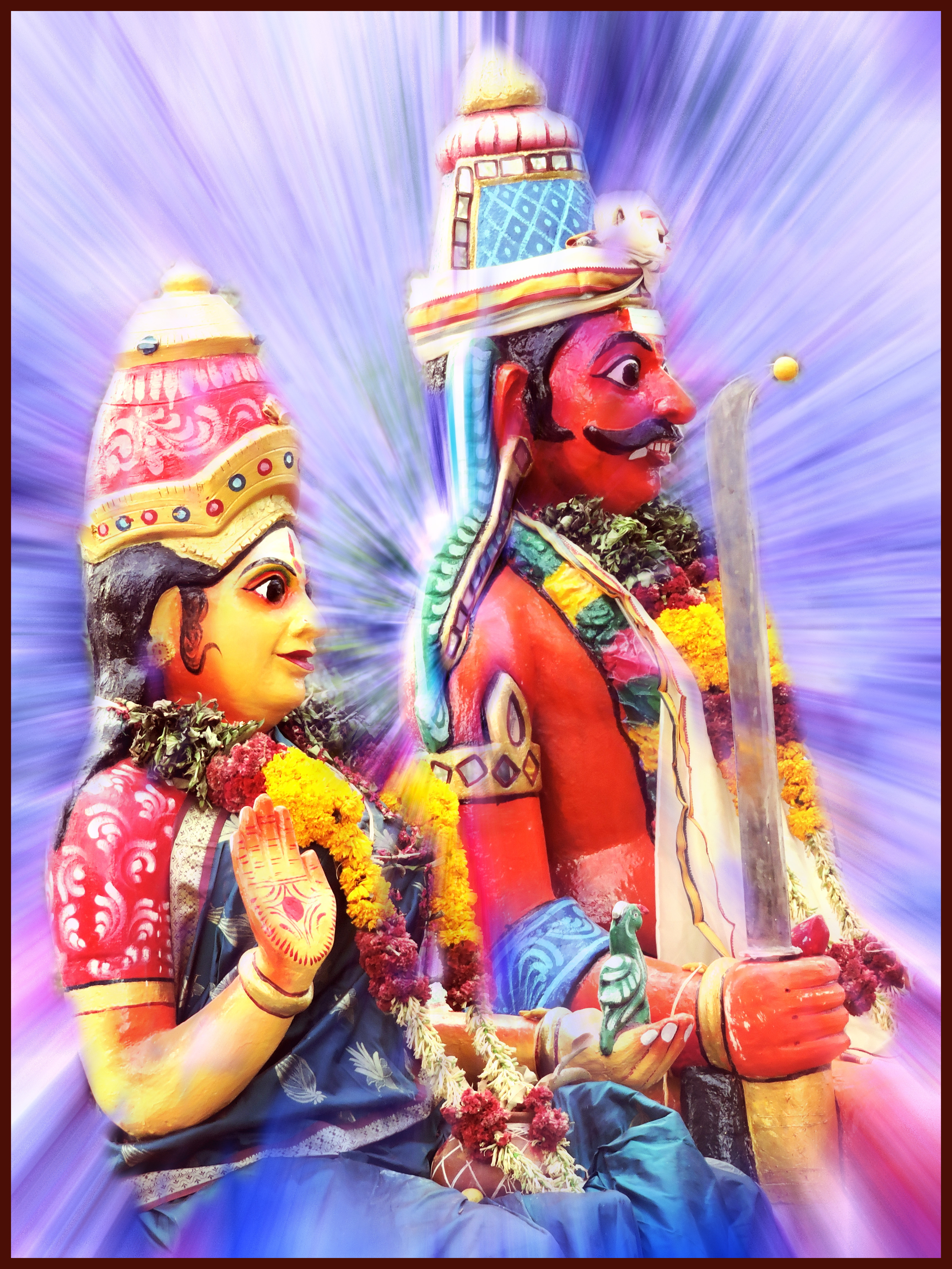 This Muniyappan temple, Located in Kalarampatty Village. All people believes that minyappan god protecting our village from dark spirits & Bad incidents.